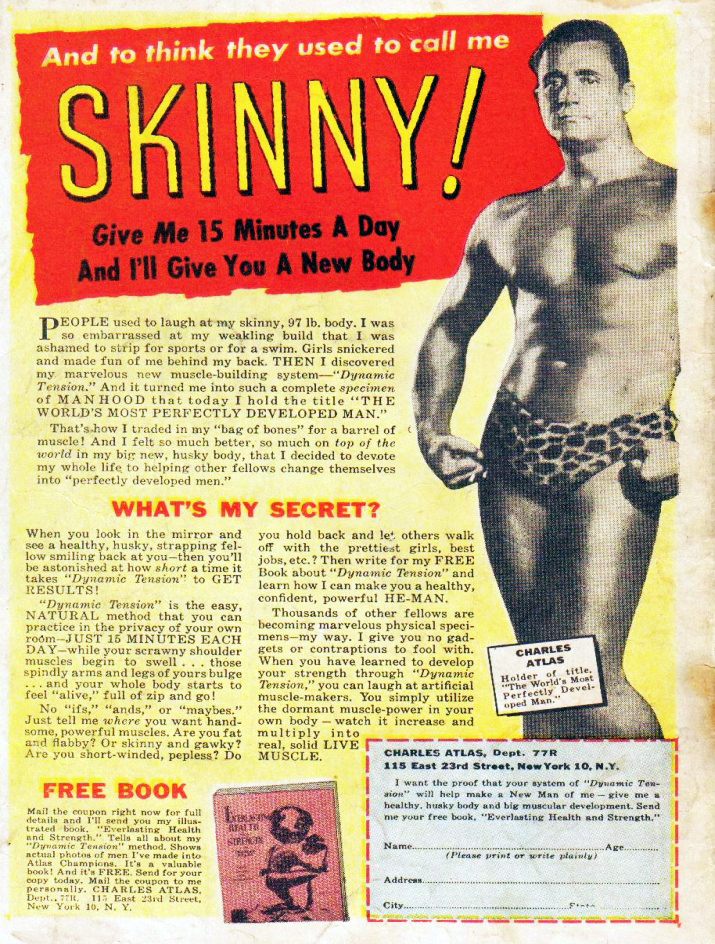 America's Best Comics #30 Page 36, april 1949, Charles Atlas in advertising